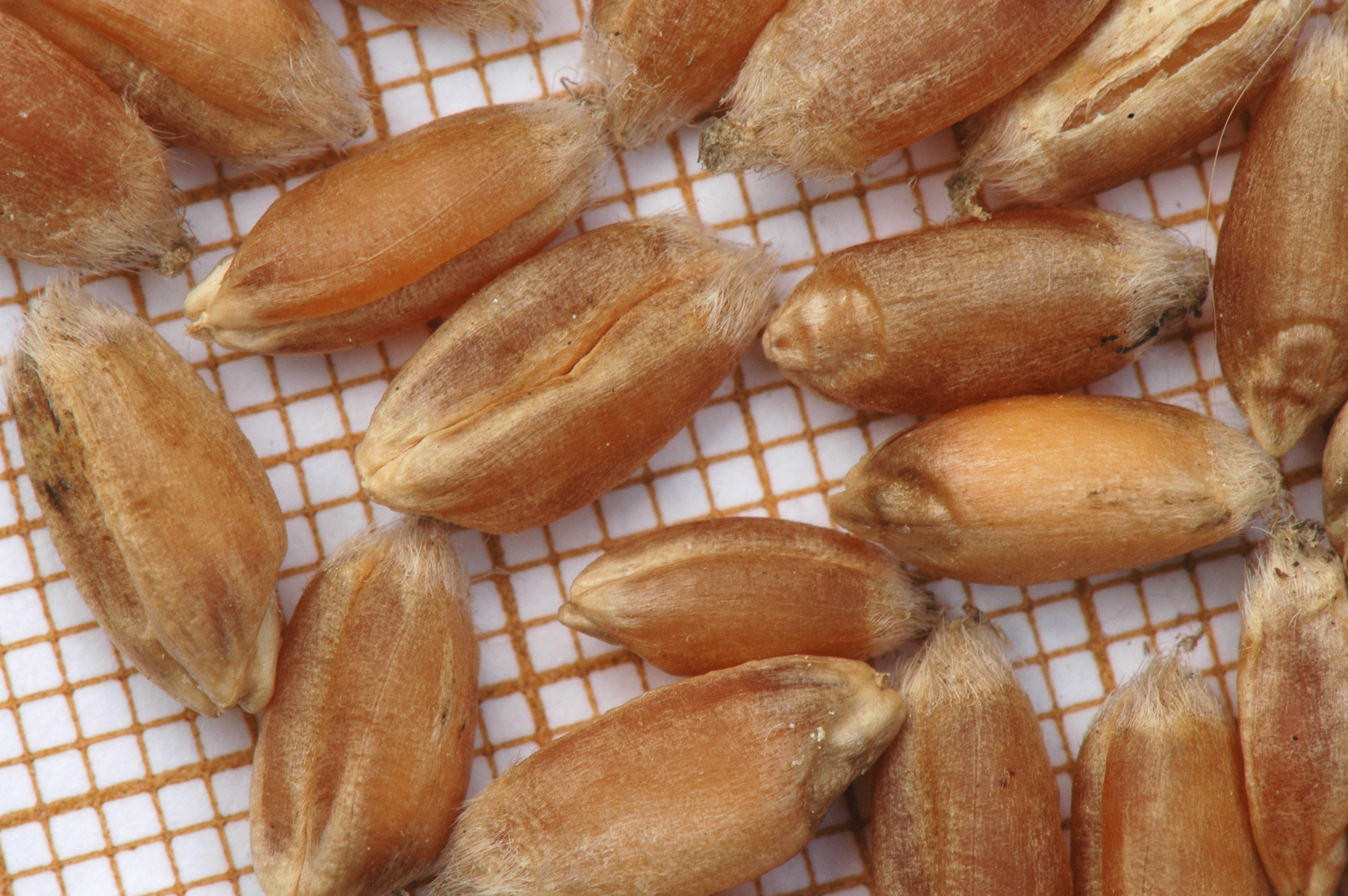 Triticum aestivum - Ploufragan-France october 2006 - seed